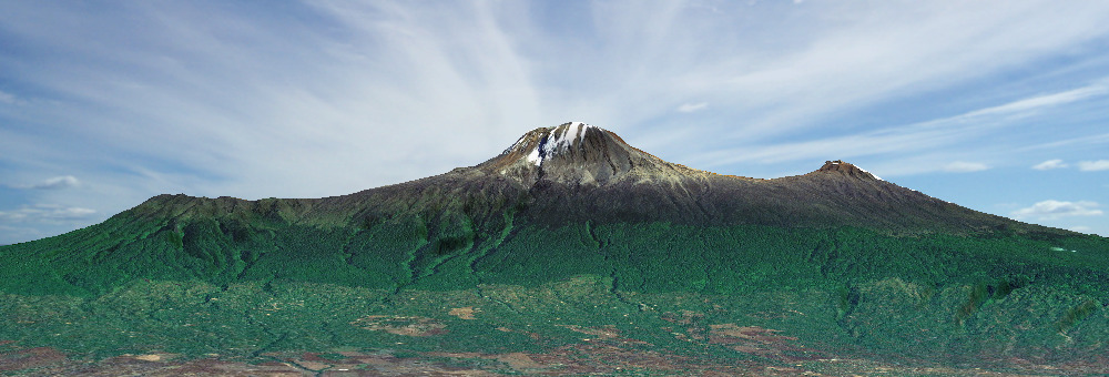 3D view of Mount Kilimanjaro. From left to right : Shira, Kibo and Mawenzi. Topographic expression is vertically exaggerated 1,5 times.